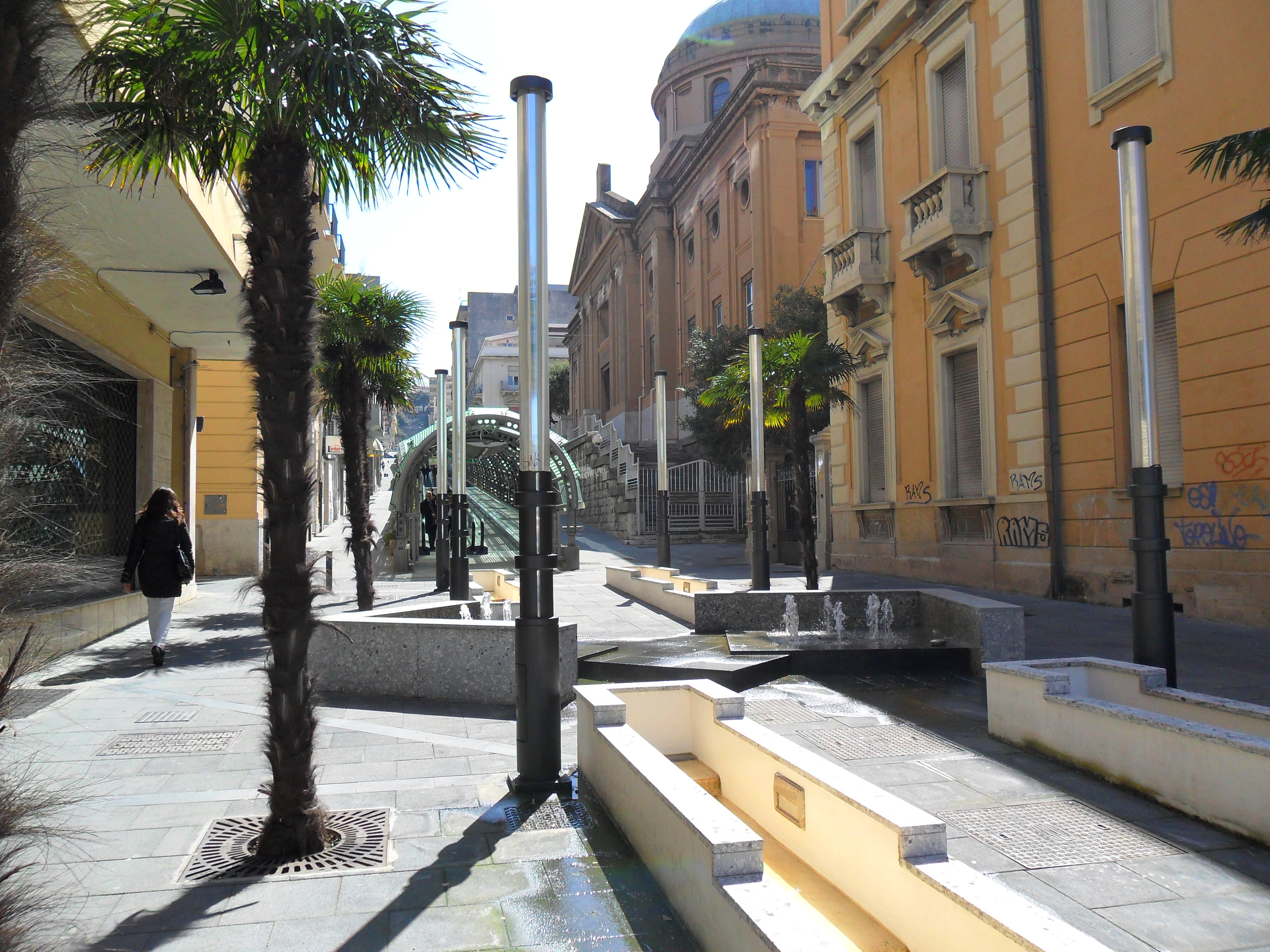 The system of the treadmill of Giudecca street